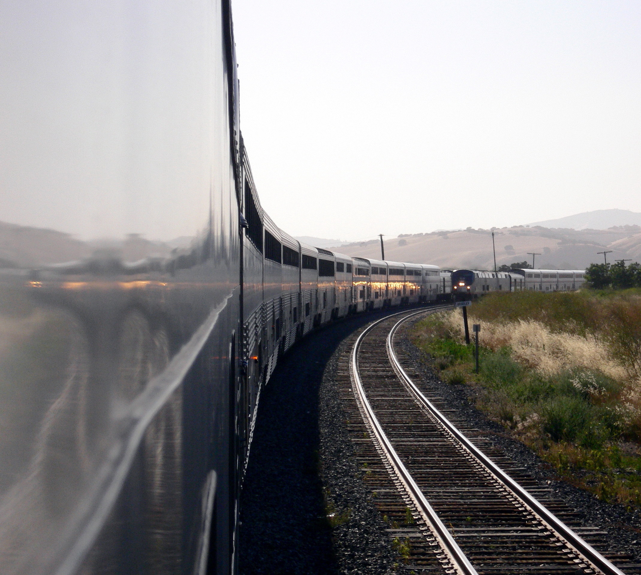 Northbound and southbound Coast Starlights meet at Bradley, California.